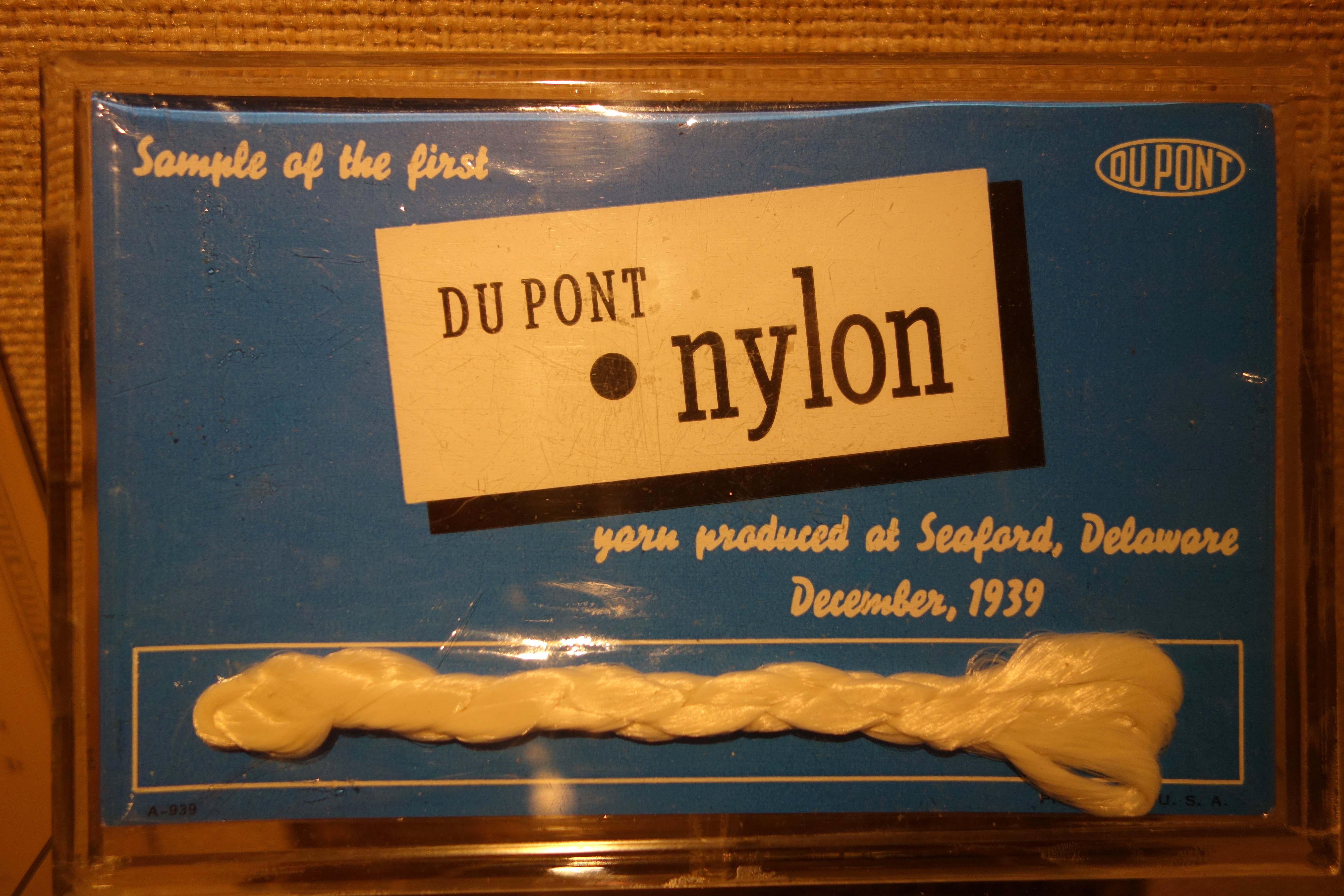 Sample of first DuPont nylon, December 1939- Heritage Exhibit - Longwood Gardens, 1001 Longwood Rd, Kennett Square, Pennsylvania, USA.